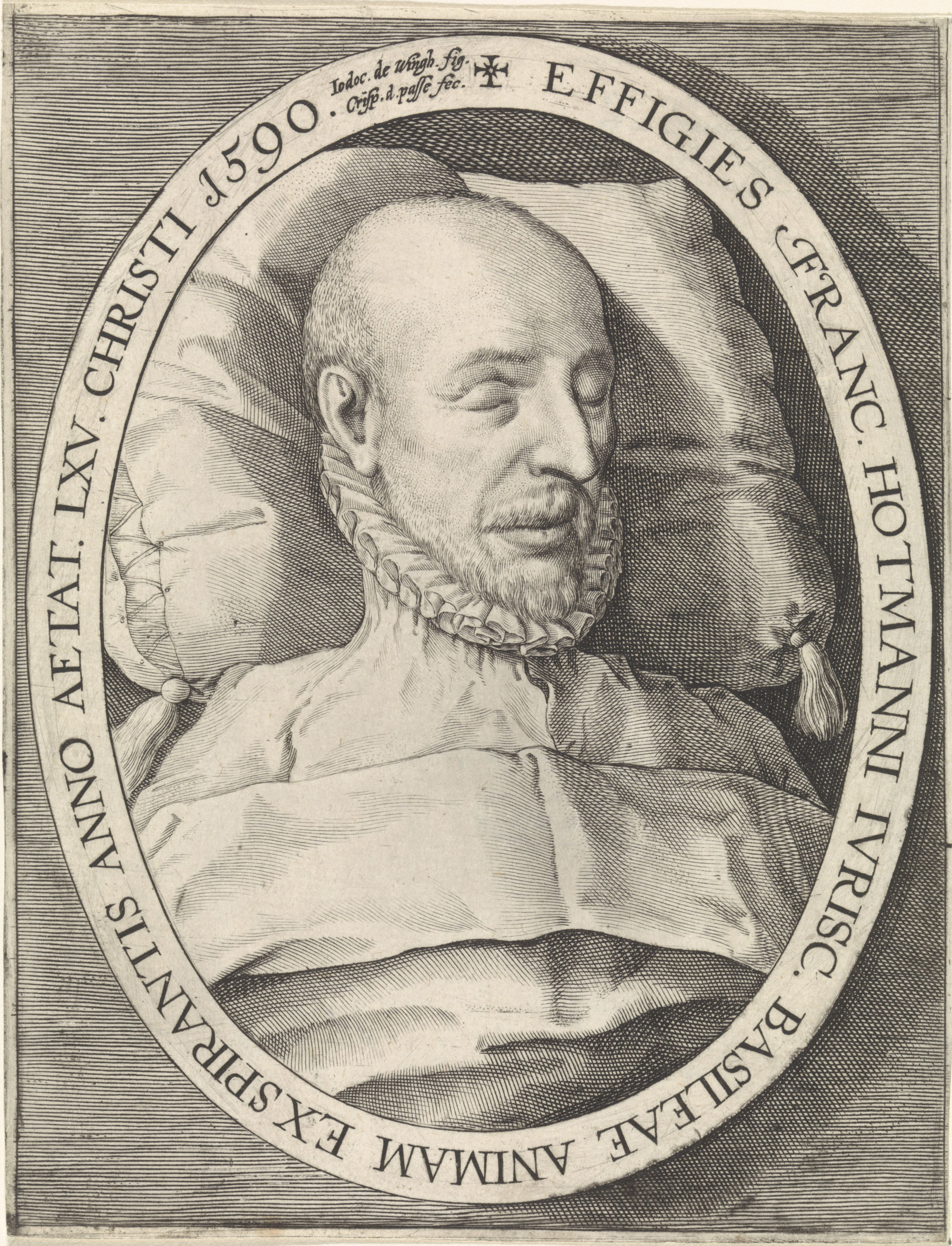 Portrait of the French lawyer François Hotman on his death bed, at the age of 65. In the frame are inscribed in Latin the name, position and age of the person portrayed.